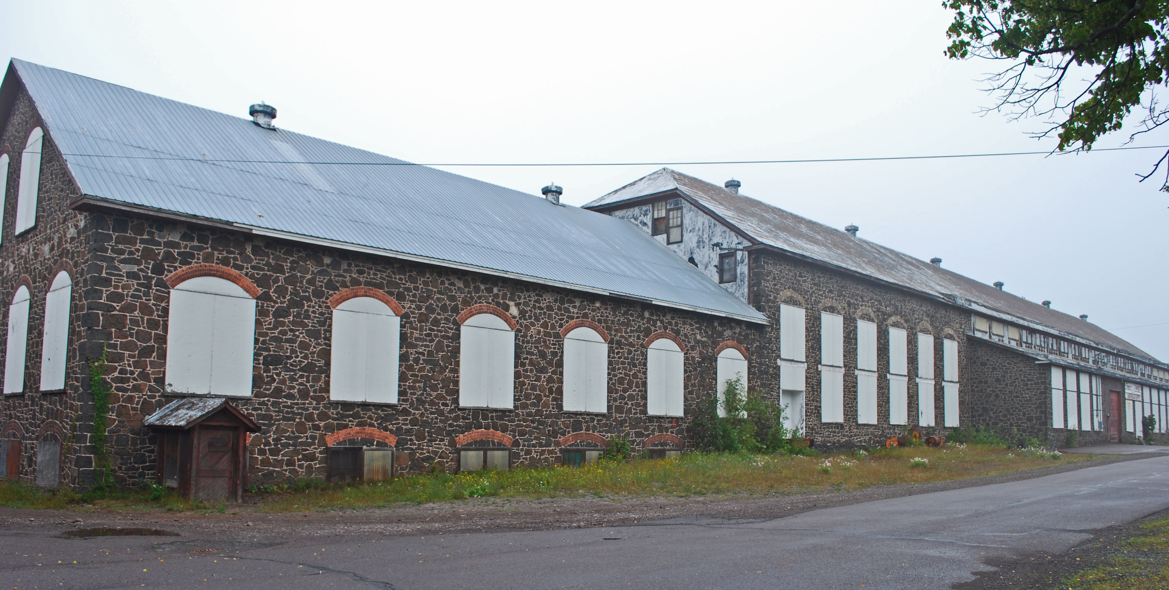 Calumet MI Industrial Building near Mine St